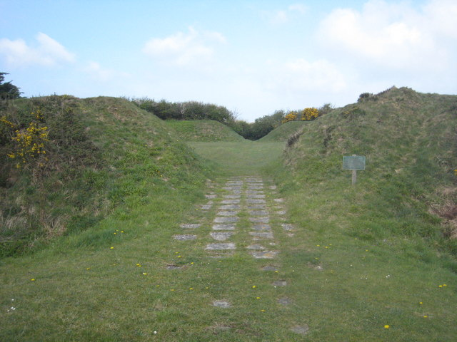 Entrance to St Piran's Round. St Piran's Round is the best surviving example of a plen an gwary - medieval amphitheatre, or playing place. Cornish language miracle plays were enacted in such places in Mid and West Cornwall throughout the Middle Ages. Some believe that this one was constructed solely for this purpose but it does seem likely from its form that it might originally have been an Iron Age or Romano-British enclosure. It is still used for the performance of miracle plays and it has also been used on five occasions in recent years for the staging of the annual Cornish Gorseth.